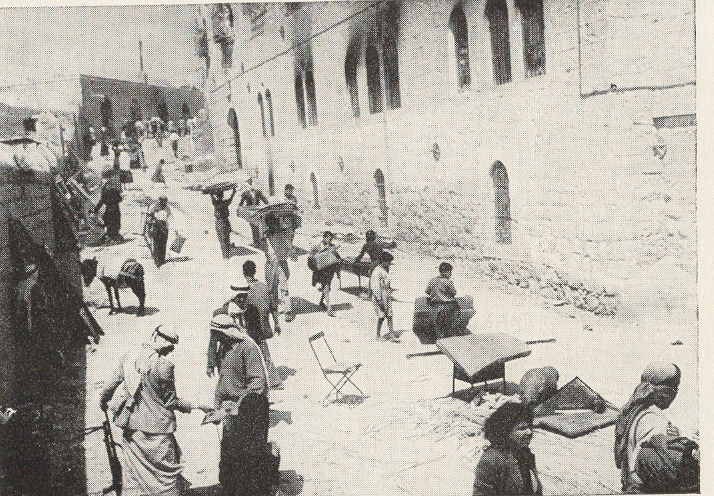 Looting in the Jewish Quarter May/June 1948